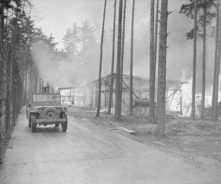 An American soldier drives past buildings set afire by survivors after the SS evacuated the Ohrdruf concentration camp.